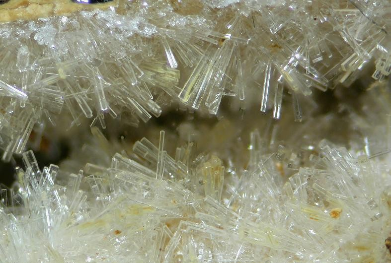 Minyulite Locality: Tom's Phosphate quarry (Tom's quarry), Kapunda, North Mt Lofty Ranges, Mt Lofty Ranges, South Australia, Australia Colourless Minyulite xls. Field of view 4 mm. Specimen and photo Leon Hupperichs.